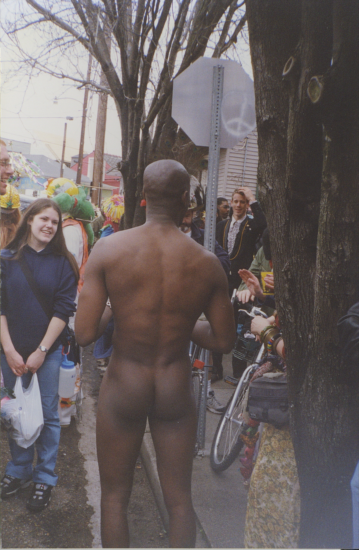 New Orleans Mardi Gras Day 2003. Man opts for simple costume. Marigny neighborhood.